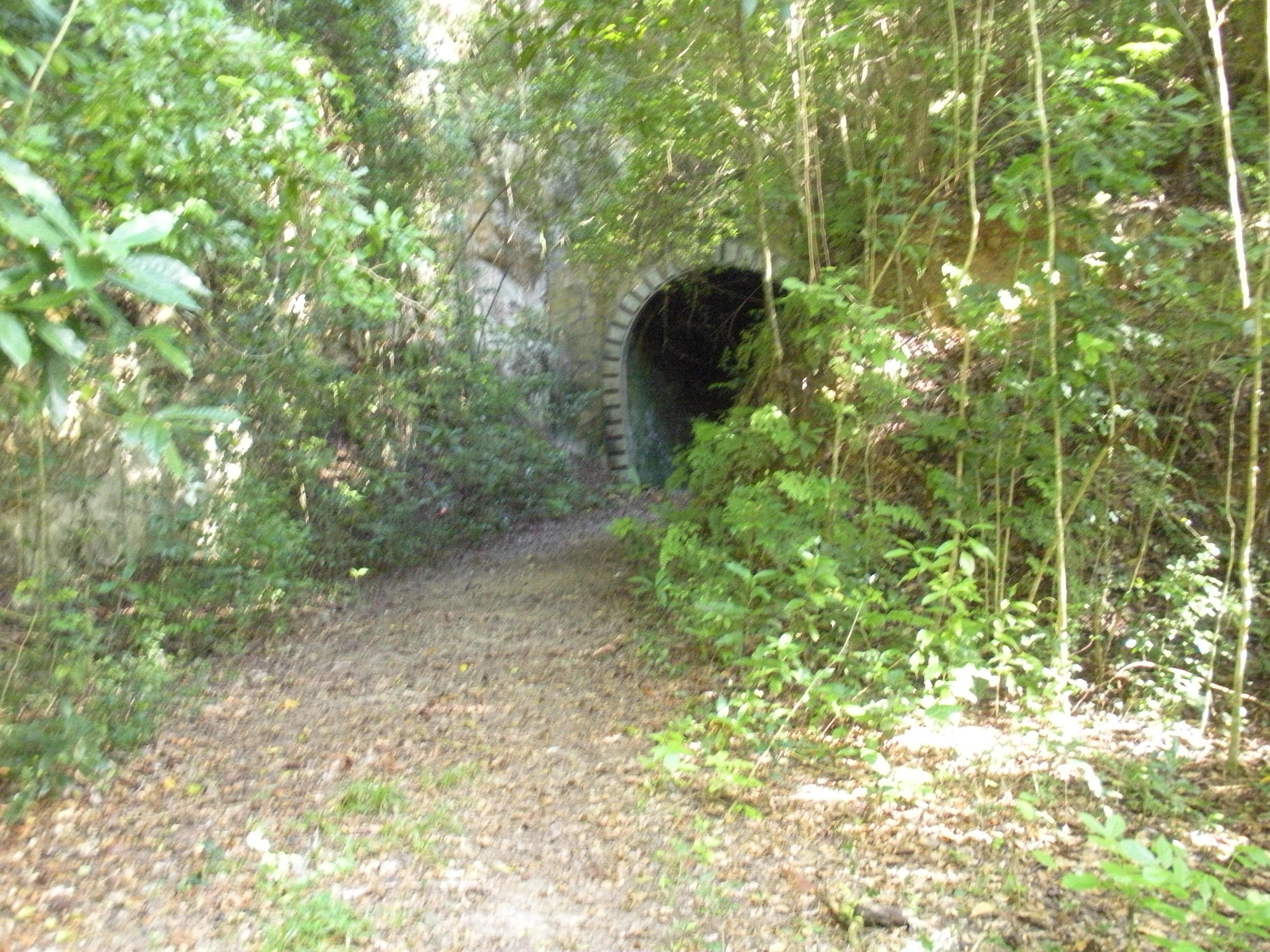 "El tunnel" of Quebradillas, Puerto Rico "EL tunnel" de Quebradillas, Puerto Rico También conocido como "El túnel negro" lleva desde la orilla de la carretera numero dos y baja la montaña hasta una finca que se encuentra a nivel del río. Muchos fanáticos del ciclismo disfrutaban este paseo, para el cual eran requeridas luces o linternas para cruzar de un lado al otro. Esto es debido a que tiene una curva dentro del mismo y no hay suficiente luz, siendo esta la razón para el sobrenombre de "Túnel negro". Los arrendatarios de la finca se disgustaban mucho por el paso de los ciclistas, pero muchas veces sin razón, pues los mismos lo hacían solo por deporte, pero los arrendatarios alegaban que otros estaban inspirados por el hurto de los frutos menores de la finca. En el ultimo caso esto ocurría durante la noche, mientras que los deportistas disfrutaban de hacer el deporte durante el día.